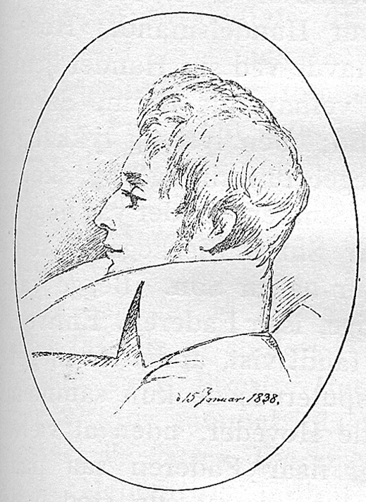 Søren Kierkegaard. January 15th 1838. Drawing by Niels Christian Kierkegaard. Etching by Knud Hendriksen, 1919.